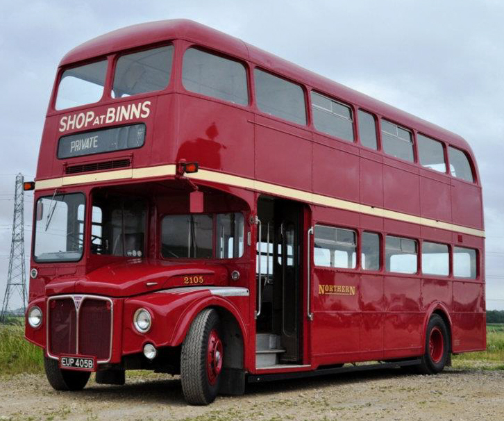 Northern 2105 (reg. EUP 405B), one of the Northern Routemasters, seen here in preservation in original livery.